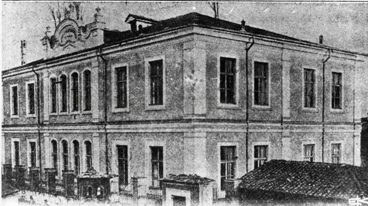 Greek school in Monastir / Bitola, today Republic of Macedonia